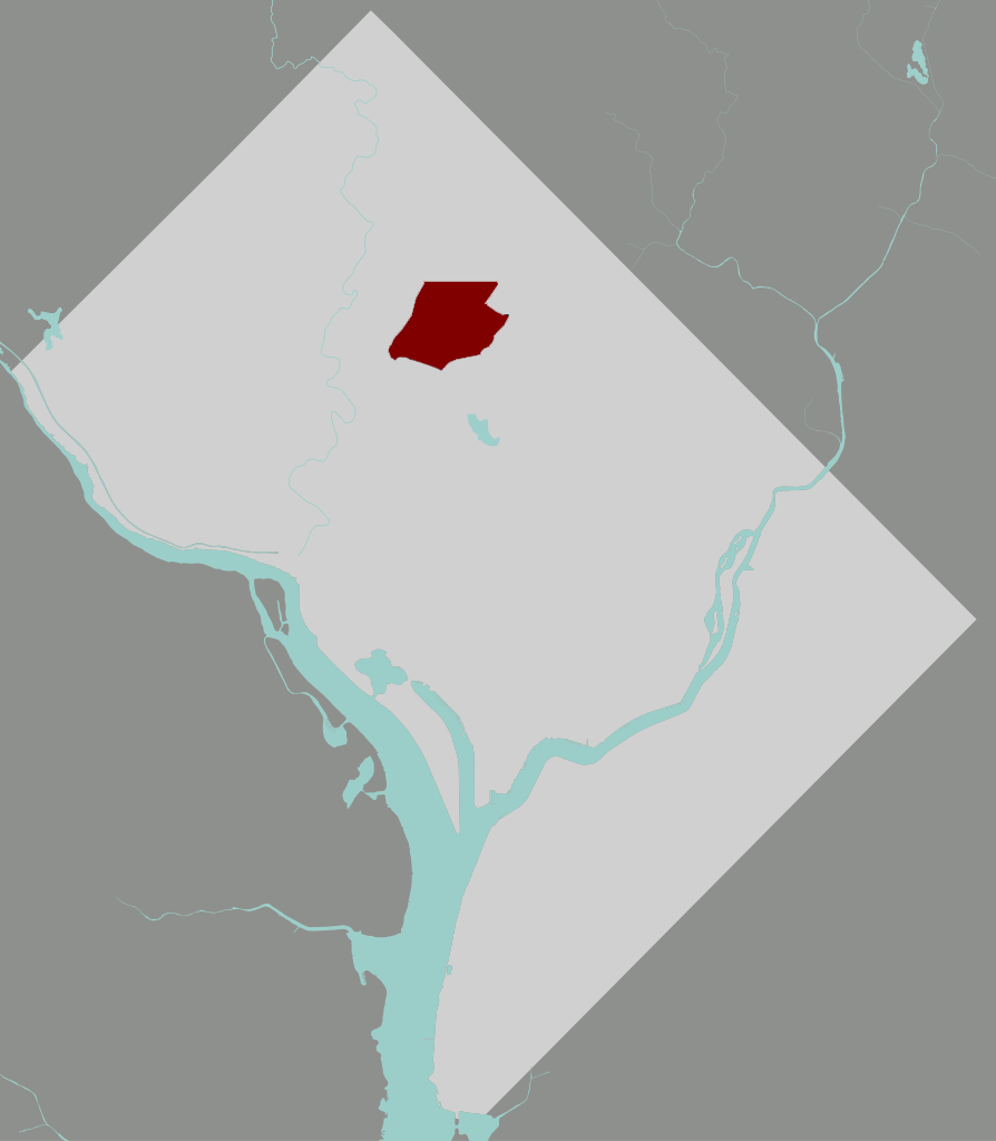 Location and boundaries of Petworth Neighborhood in the District of Columbia.